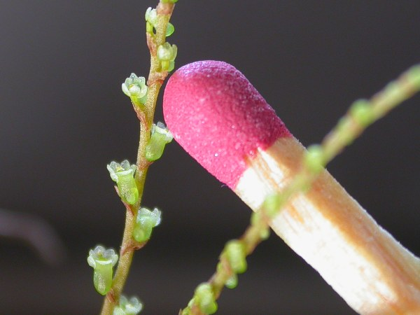 Campylocentrum grisebachii is a very small orchid of Brazil.